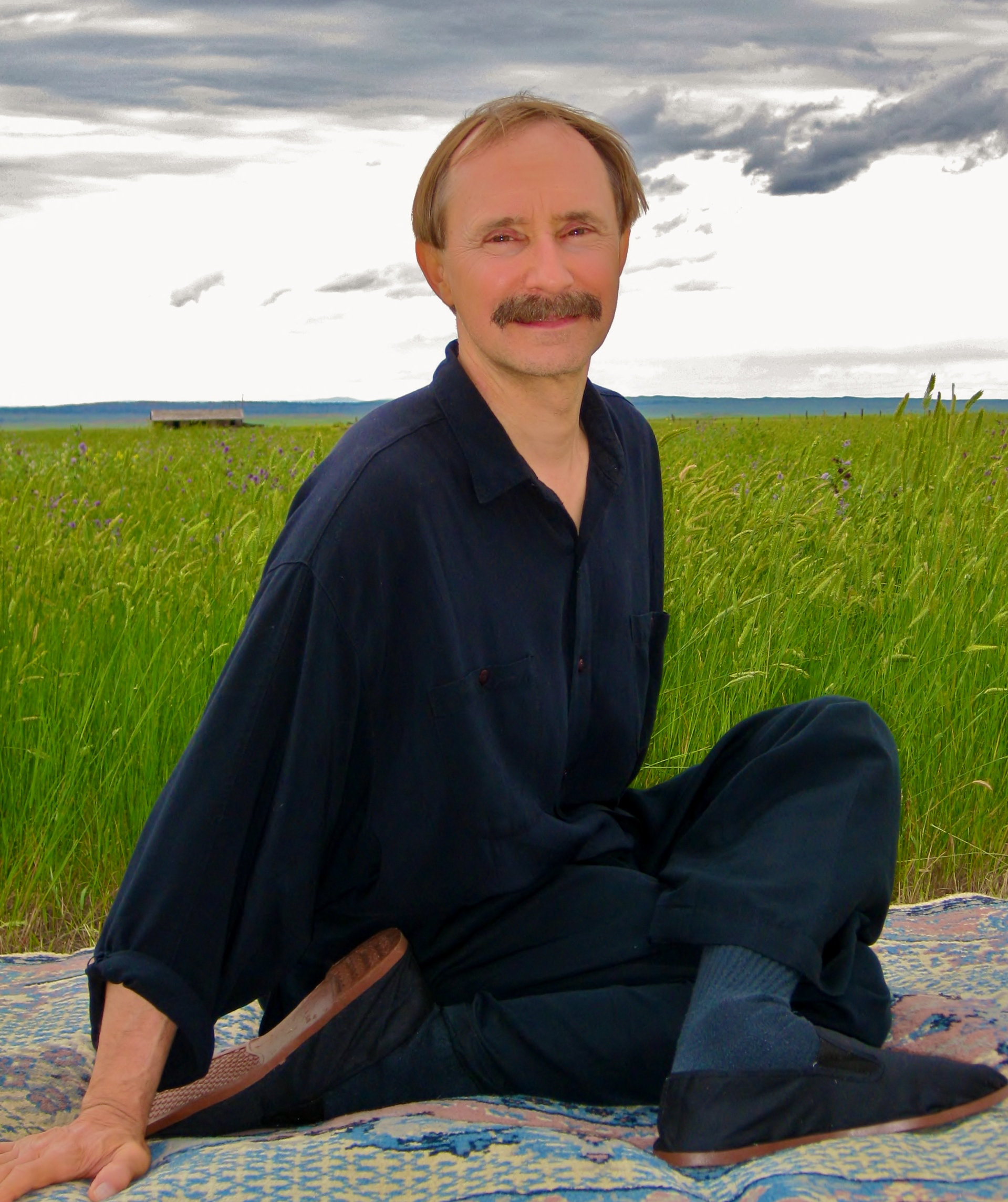 Paulie Zink, master of Yin Yoga